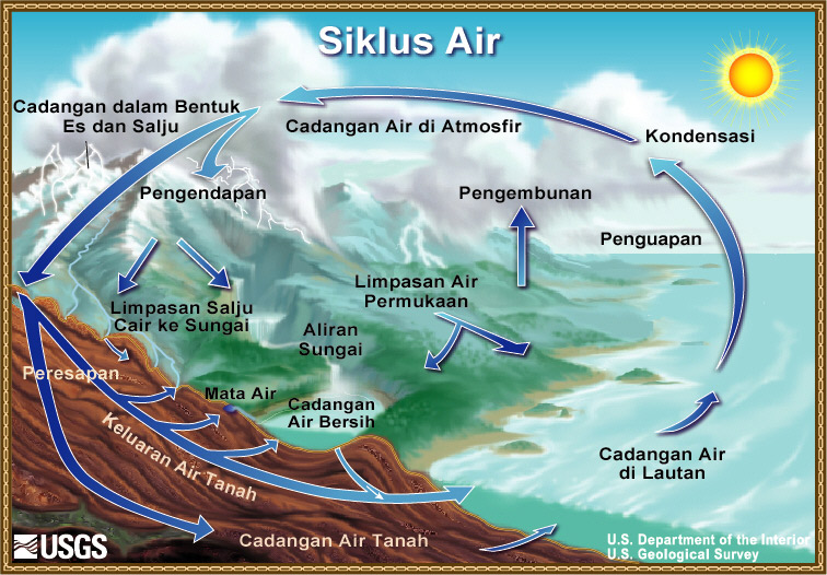 Water-Cycle Diagram (Indonesian)